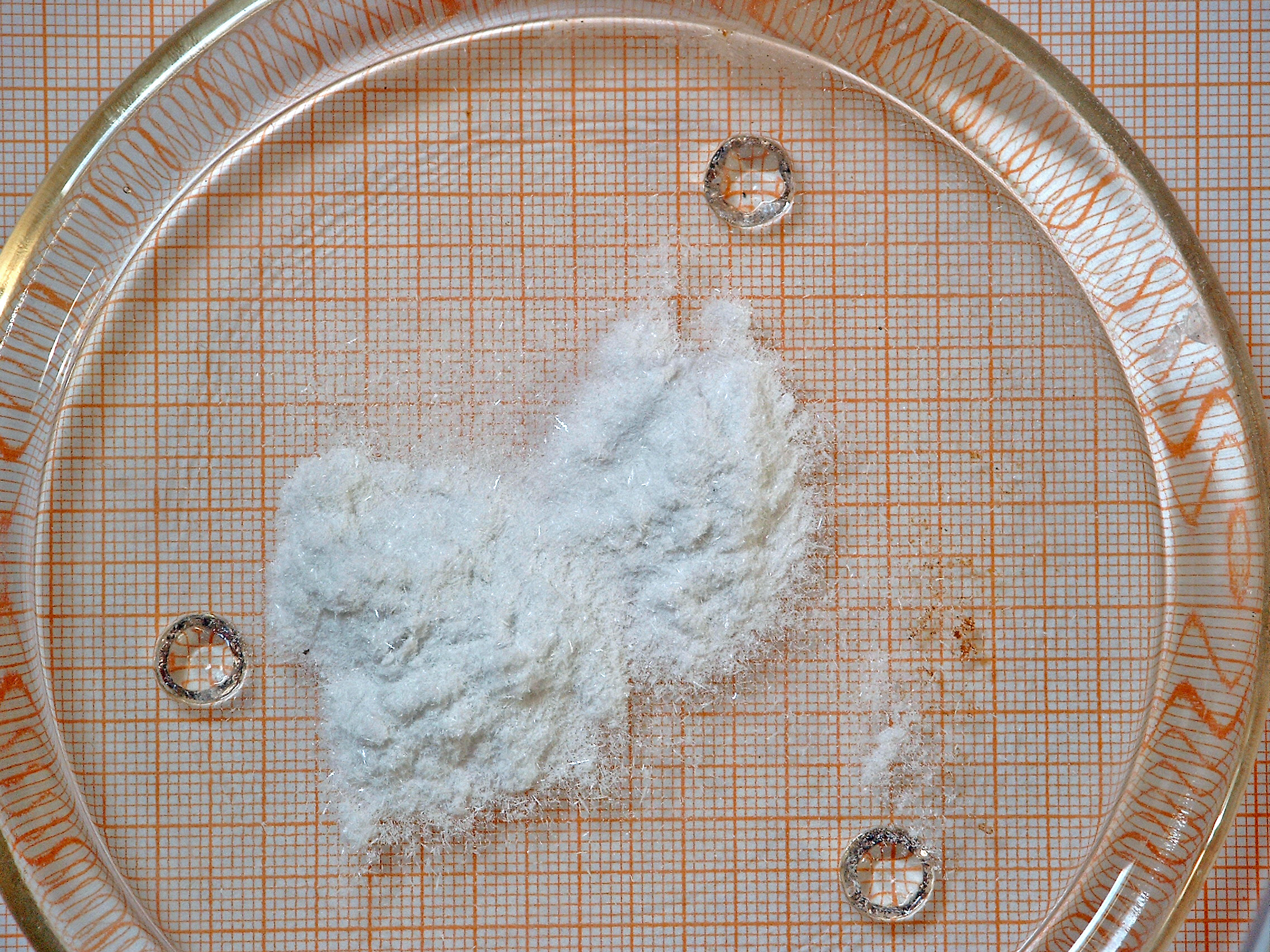 Highly purified mercury(II) fulminate orthorhombic crystals in a glass dish.